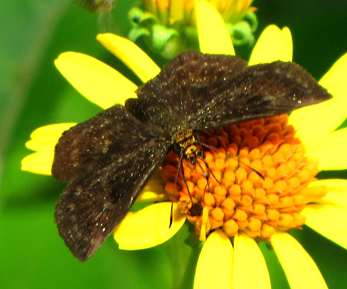 Golden-headed Bolla (Bolla cupreiceps), Tambopata Park, Peru